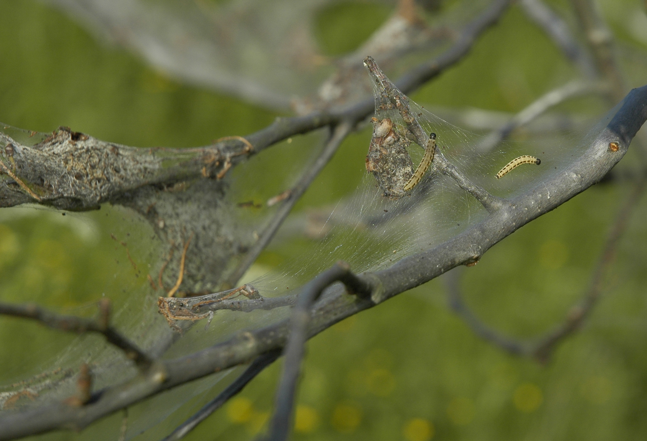 Branch with larvae of Yponomeuta evonymella